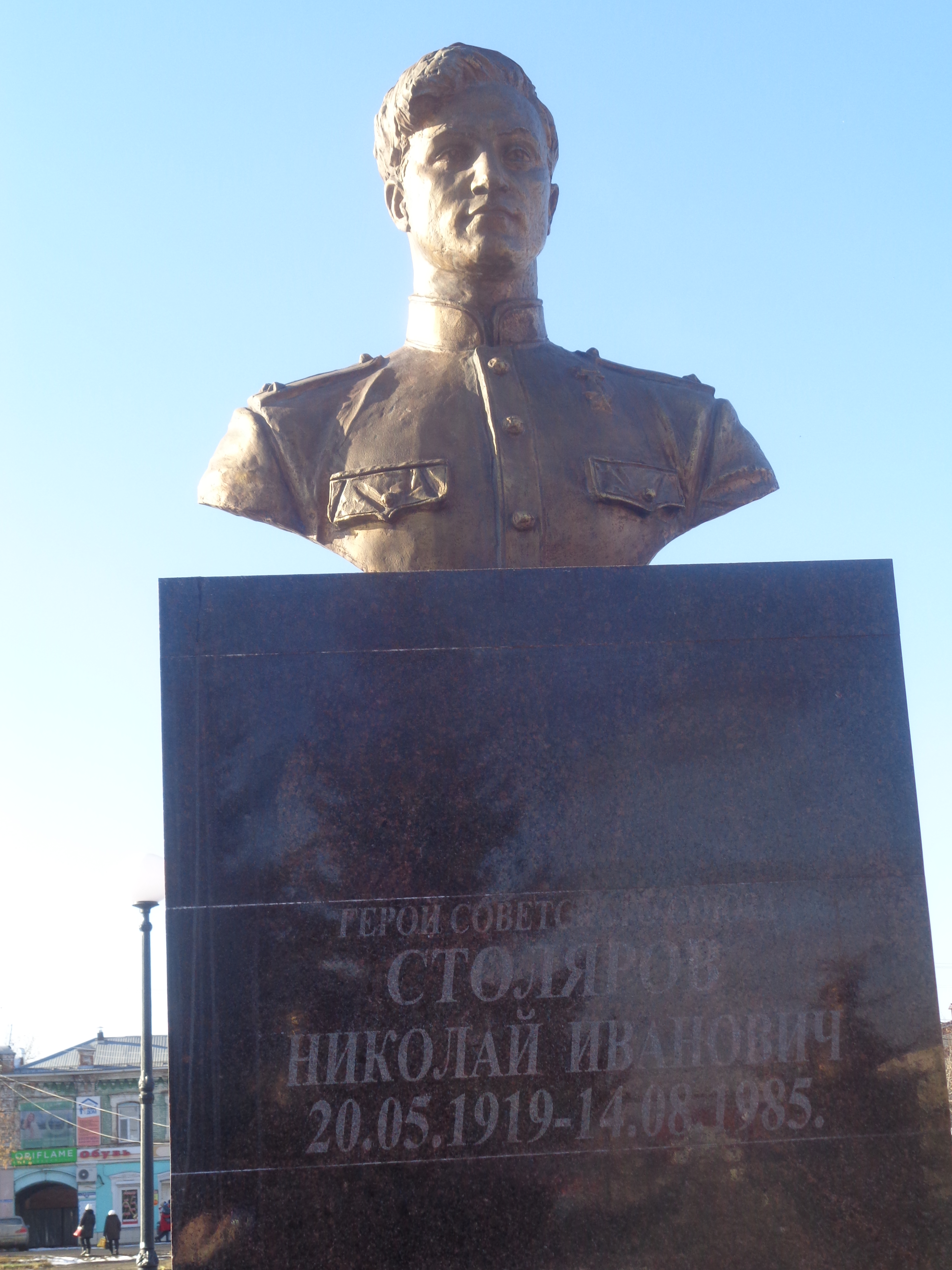 Monument to the Hero of the Soviet Union Stolyarov Nikolai Ivanovich